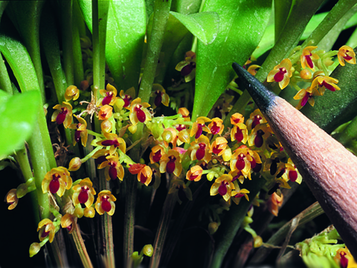 Platystele stenostachya